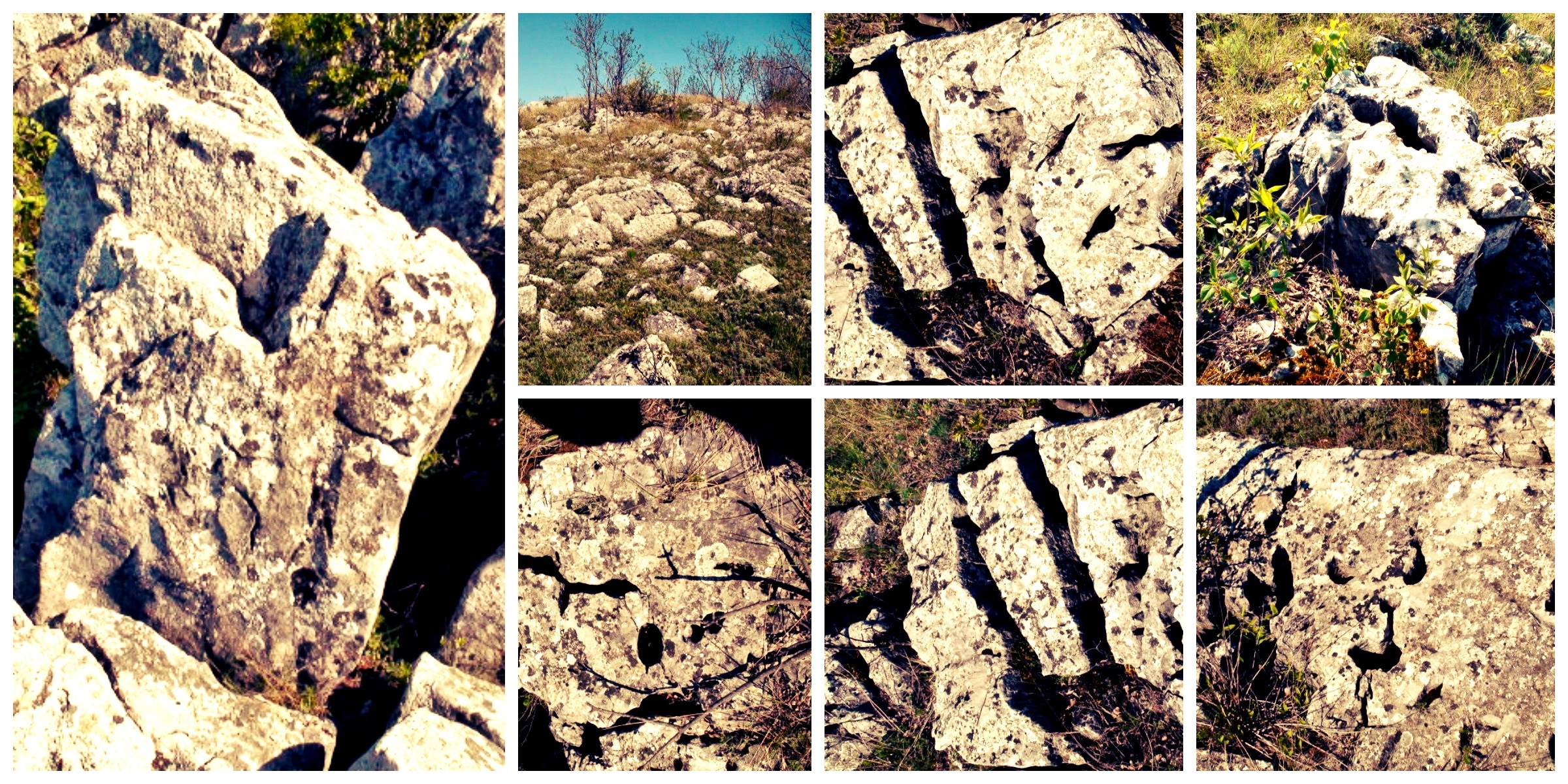 Paramun sanctuary BG